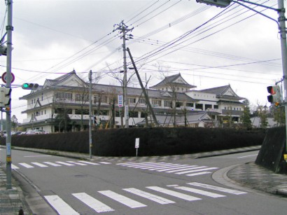 City office of Taketa, Ōita, Japan